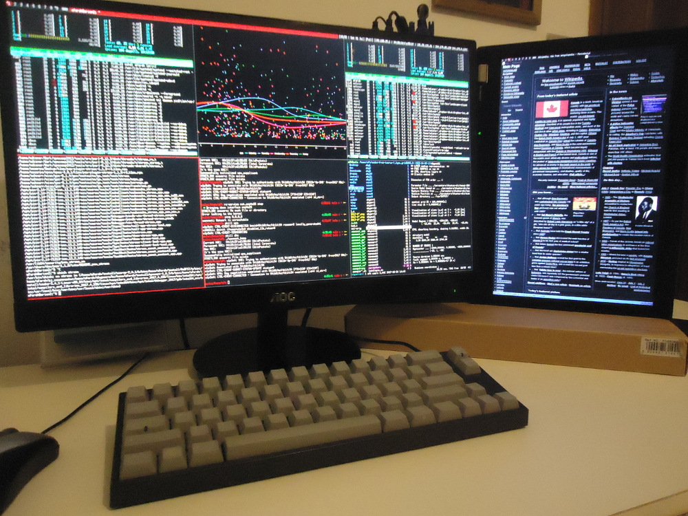 The dwm X window manager displaying its tiled modes running on two screens simultaneously, using X11's Xinerama extension